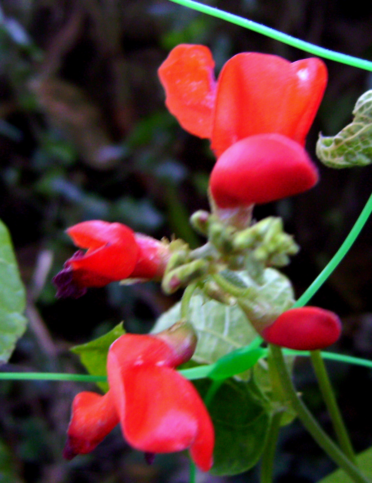 Phaseolus coccineus flower, Castelltallat, Catalonia